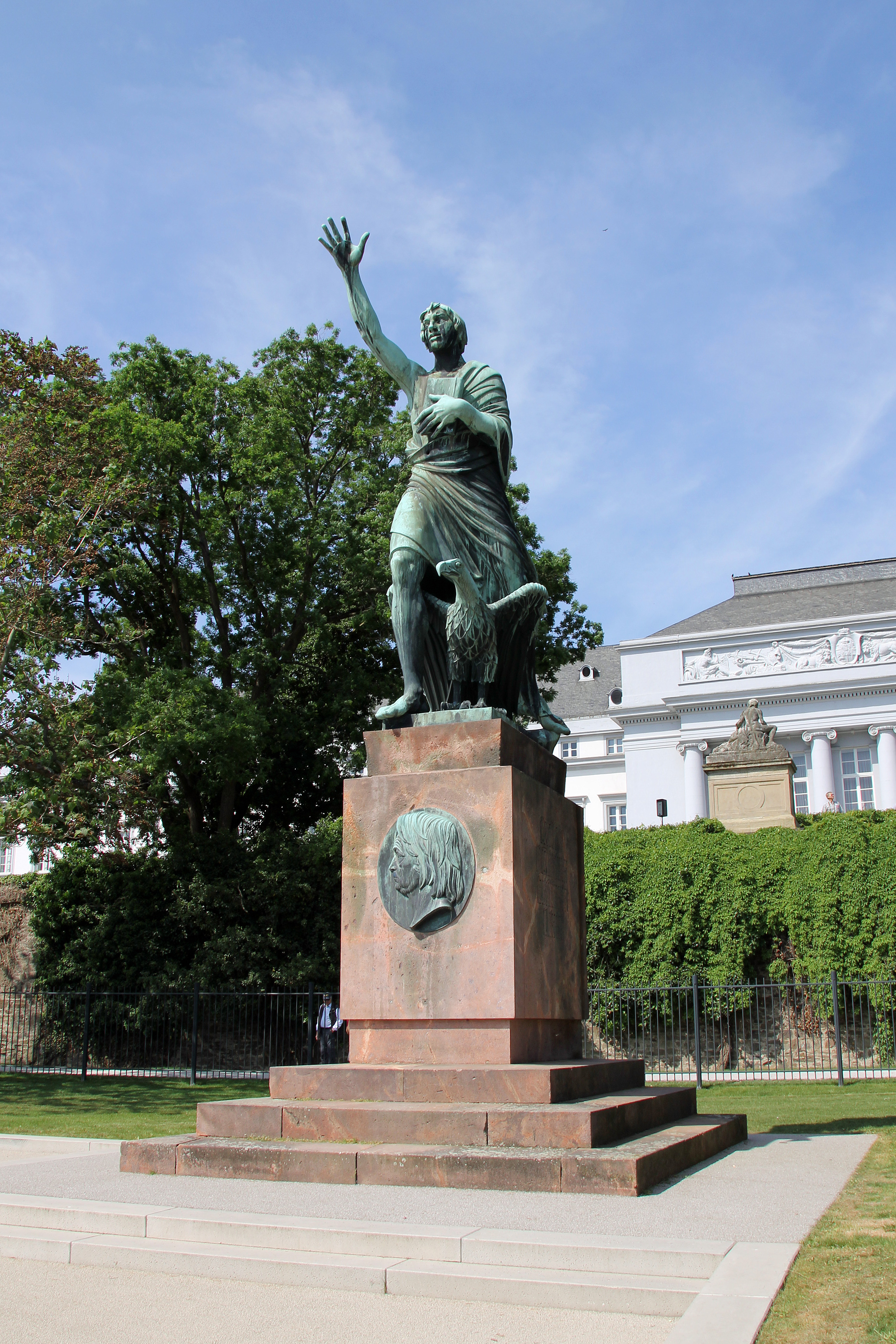 Monument for Joseph Görres at the Rhine park in Koblenz